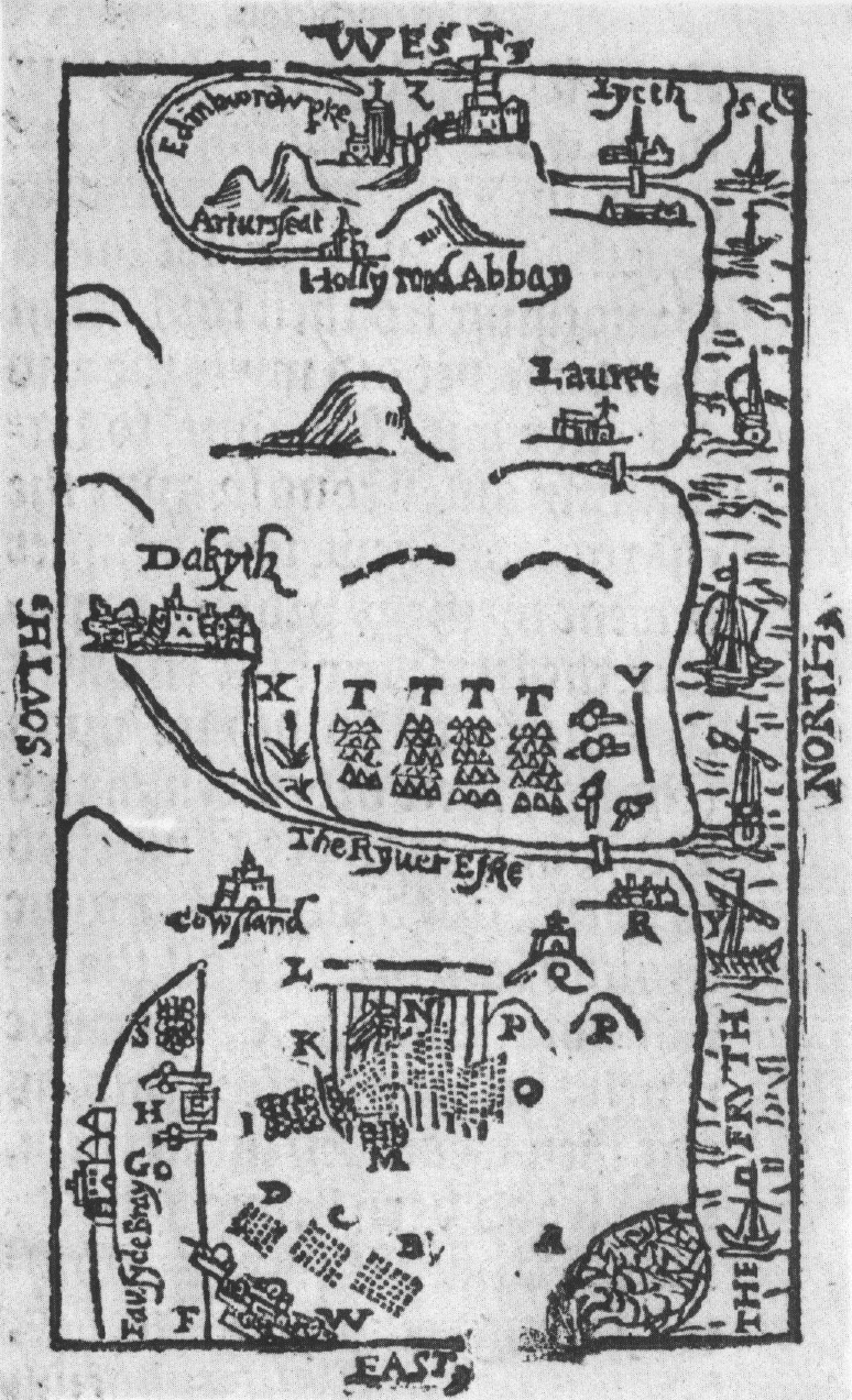 Battle of Pinkie sketch, 1547. This image is annotated on its description page at Commons.